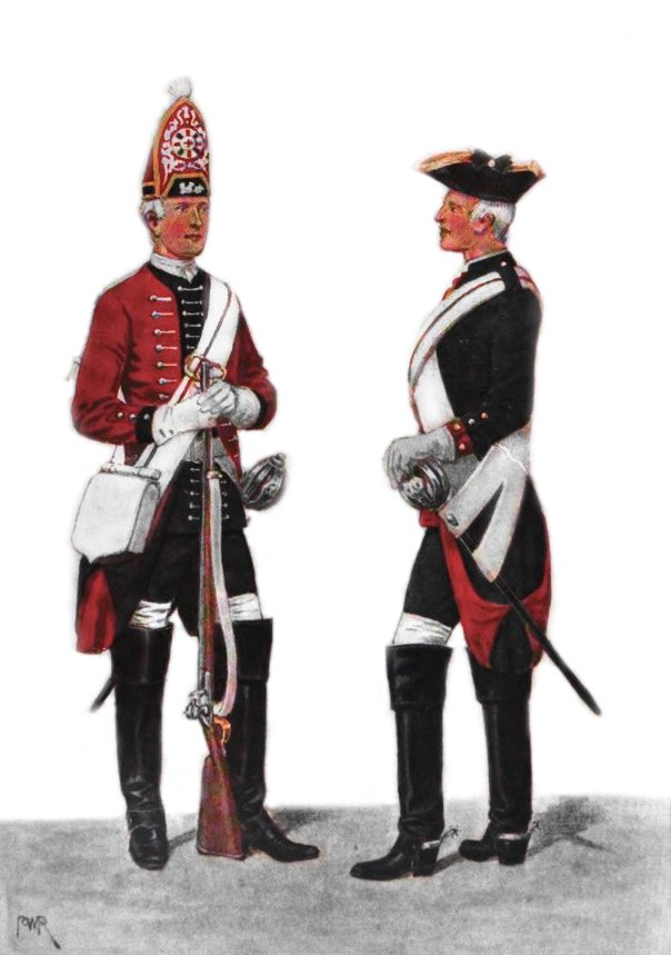 Plate made from a water-colour done by Percival N. Reynolds depicting a trooper of the Scots Gryes and a trooper of the Royal Horse Guards c. 1745.